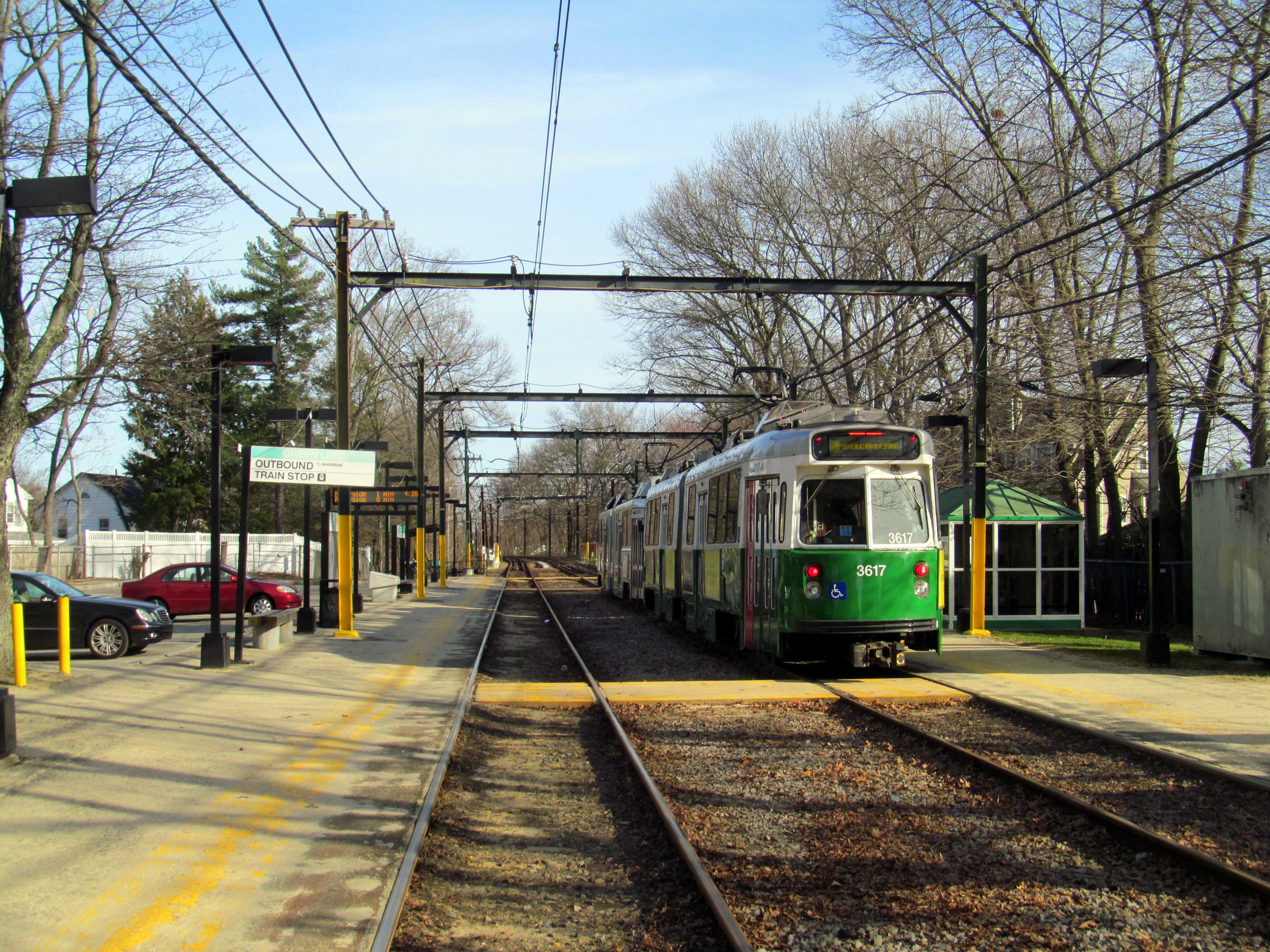 An inbound train at Eliot station in March 2016